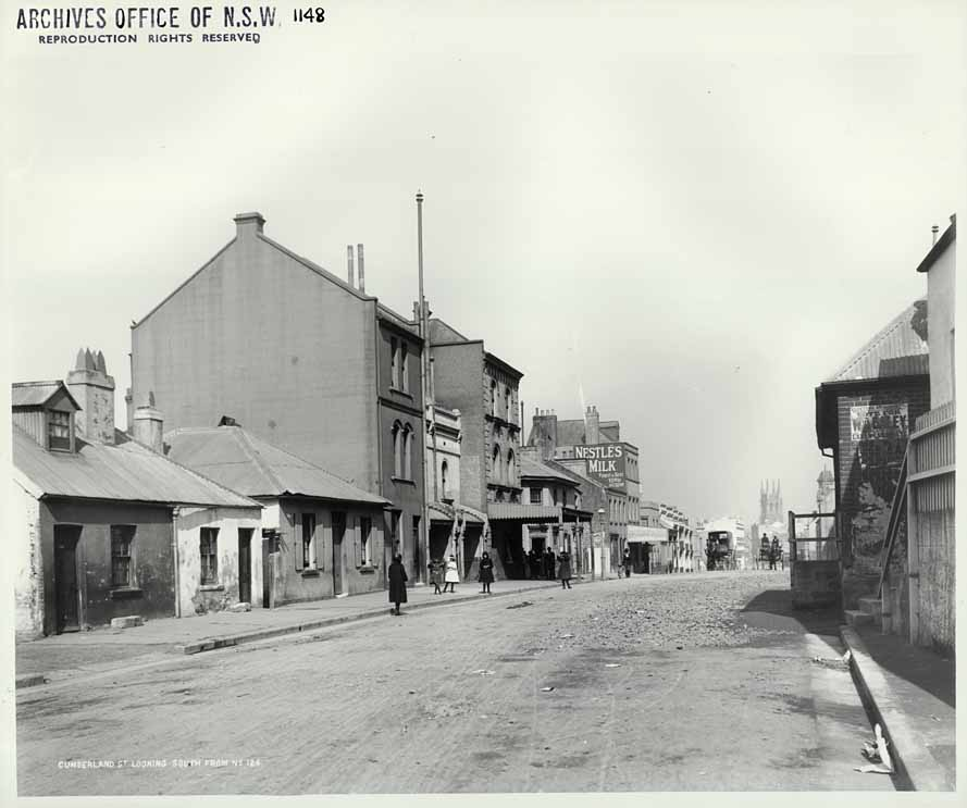 Cumberland Street from No.124 looking south, The Rocks [Rocks Resumption photographic survey] Dated: Year only 1901 Digital ID: 4481_a026_000222 Rights: We'd love to hear from you if you use our photos. Many other photos in our collection are available to view and browse on our website using Photo Investigator.